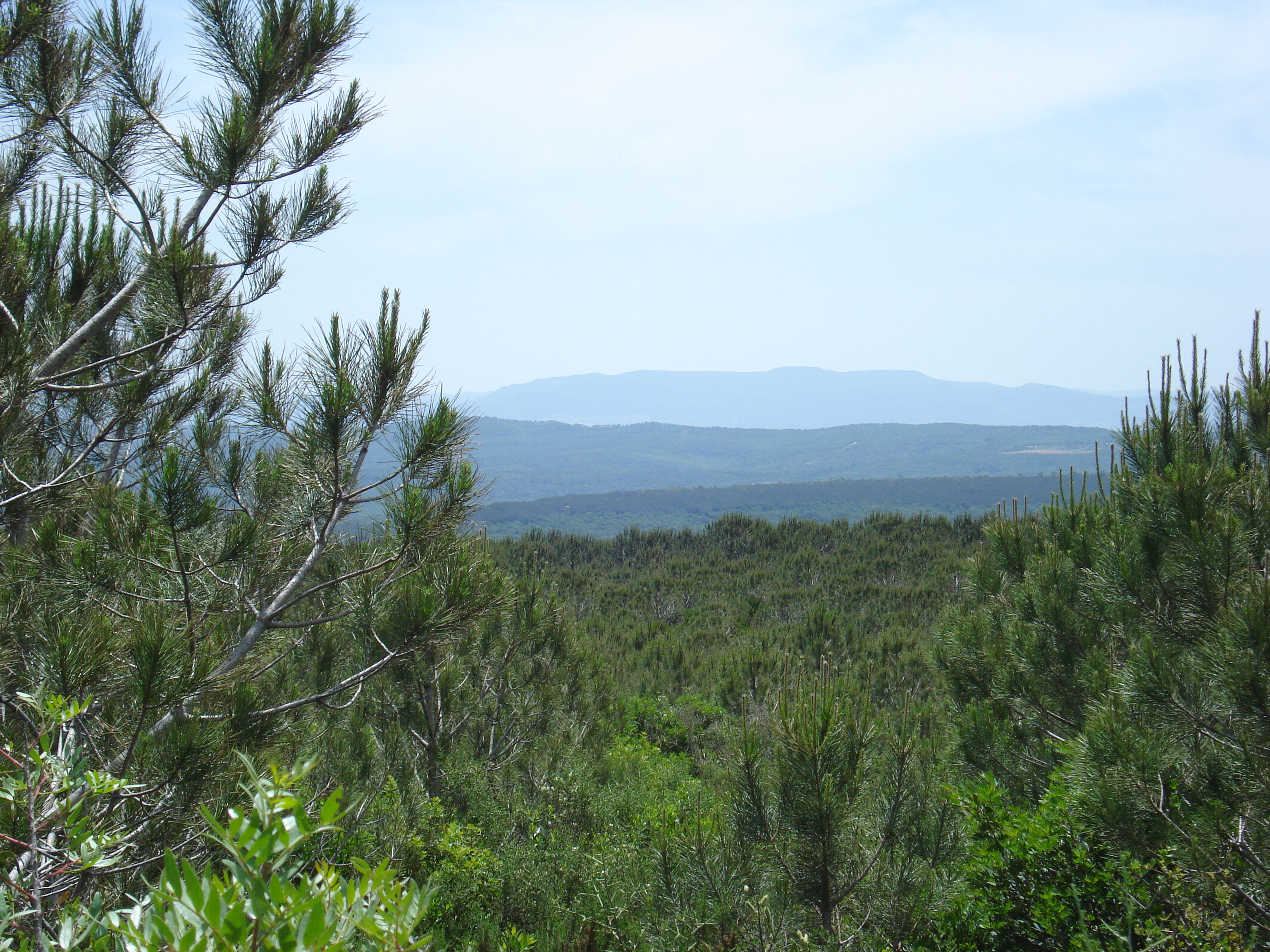 Jebel Sidi Mohammed near Cap Negro, North-West of Tunisia